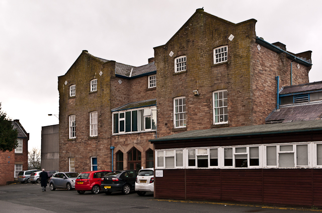 Photograph of Ludlow Hospital, Shropshire, England